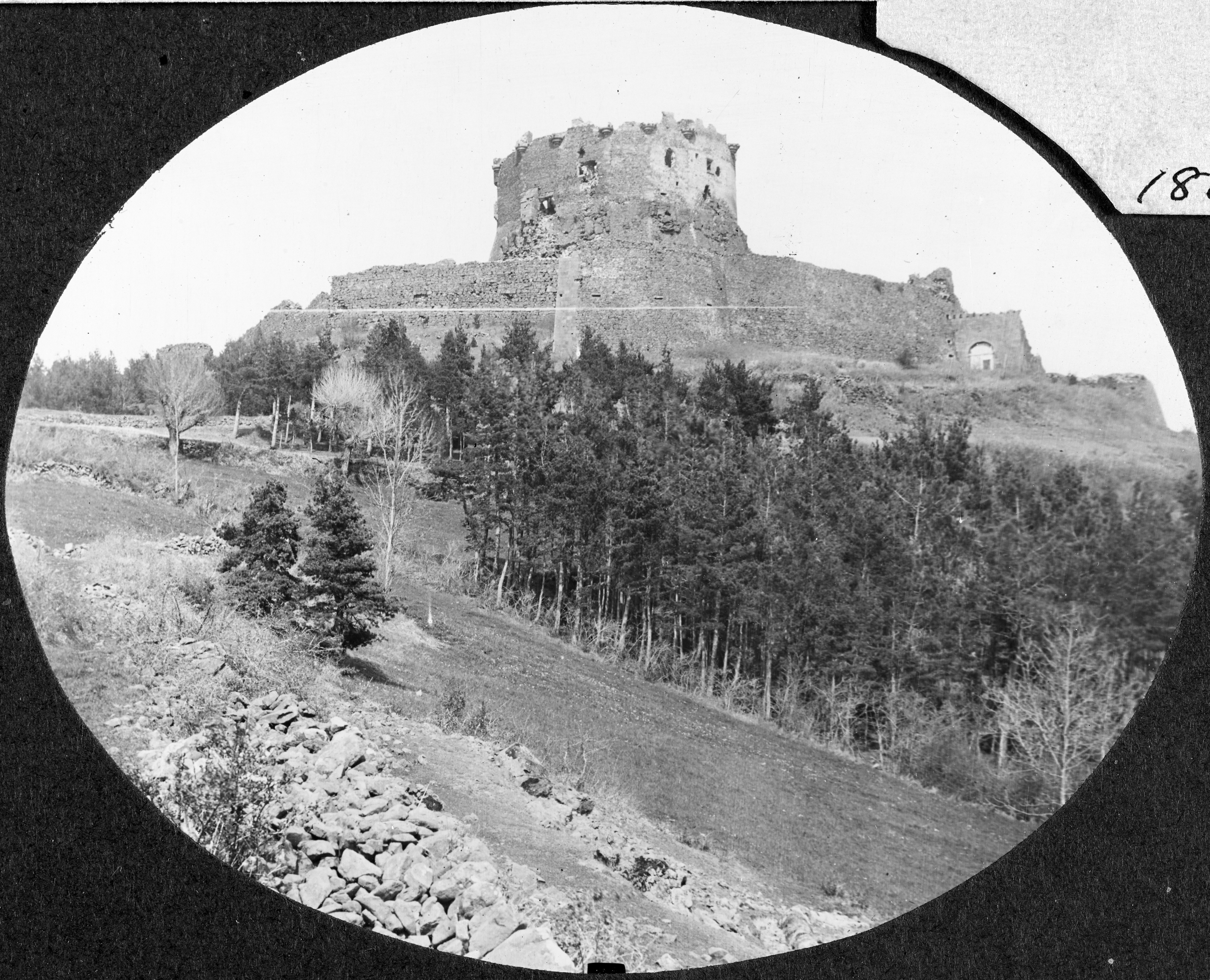 One slide and one negative. Large ruined chateau (Chateau de Murols). See YORYM : TA253 for full details.